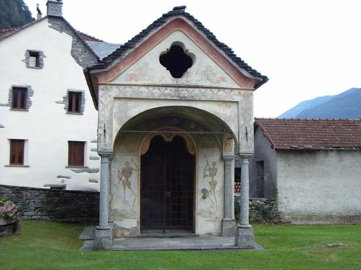 Beinhaus